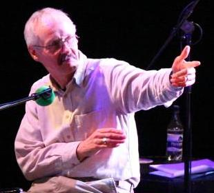 The ISIHAC Xmas Special recorded at the Lyric Theatre, Shaftesbury Avenue. The show will be broadcast on Xmas day on BBC Radio 4 at noon. The Band, Colin Sell (who was also the White Rabbit) on the piano, Adrian Macintosh (drums) and John Rees-Jones (double bass)